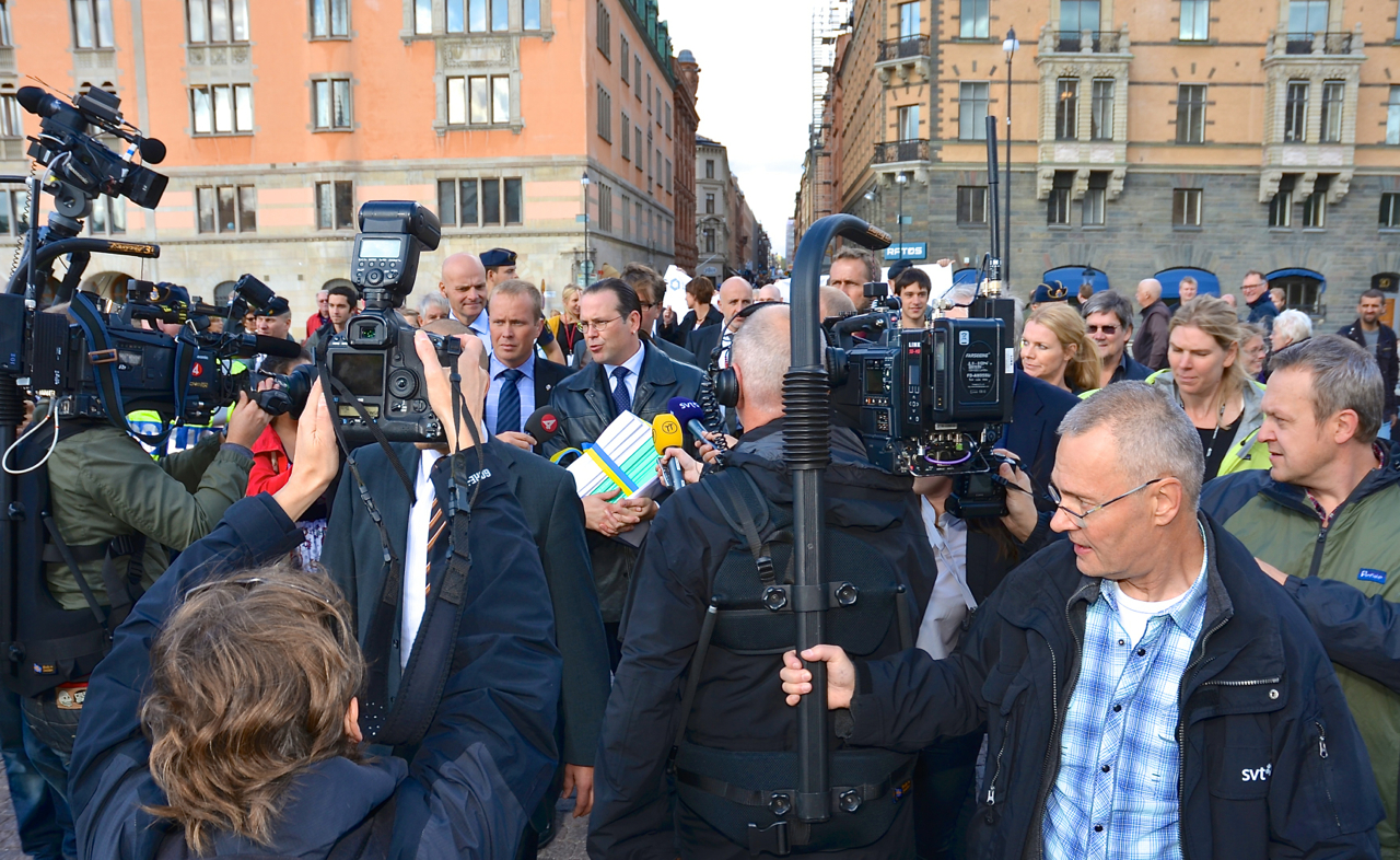 Swedish Minister for Finance Anders Borg, with the 2012 budget proposition, during tthe walk to Parliament, September 20th 2011.